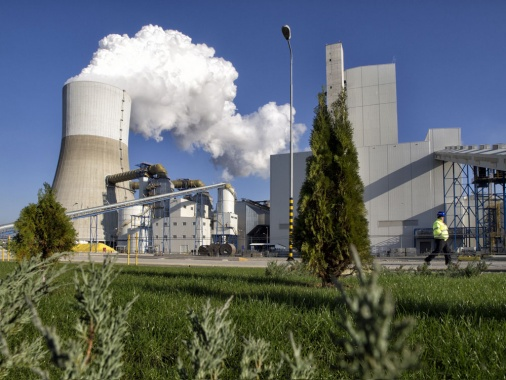 AES Galabovo